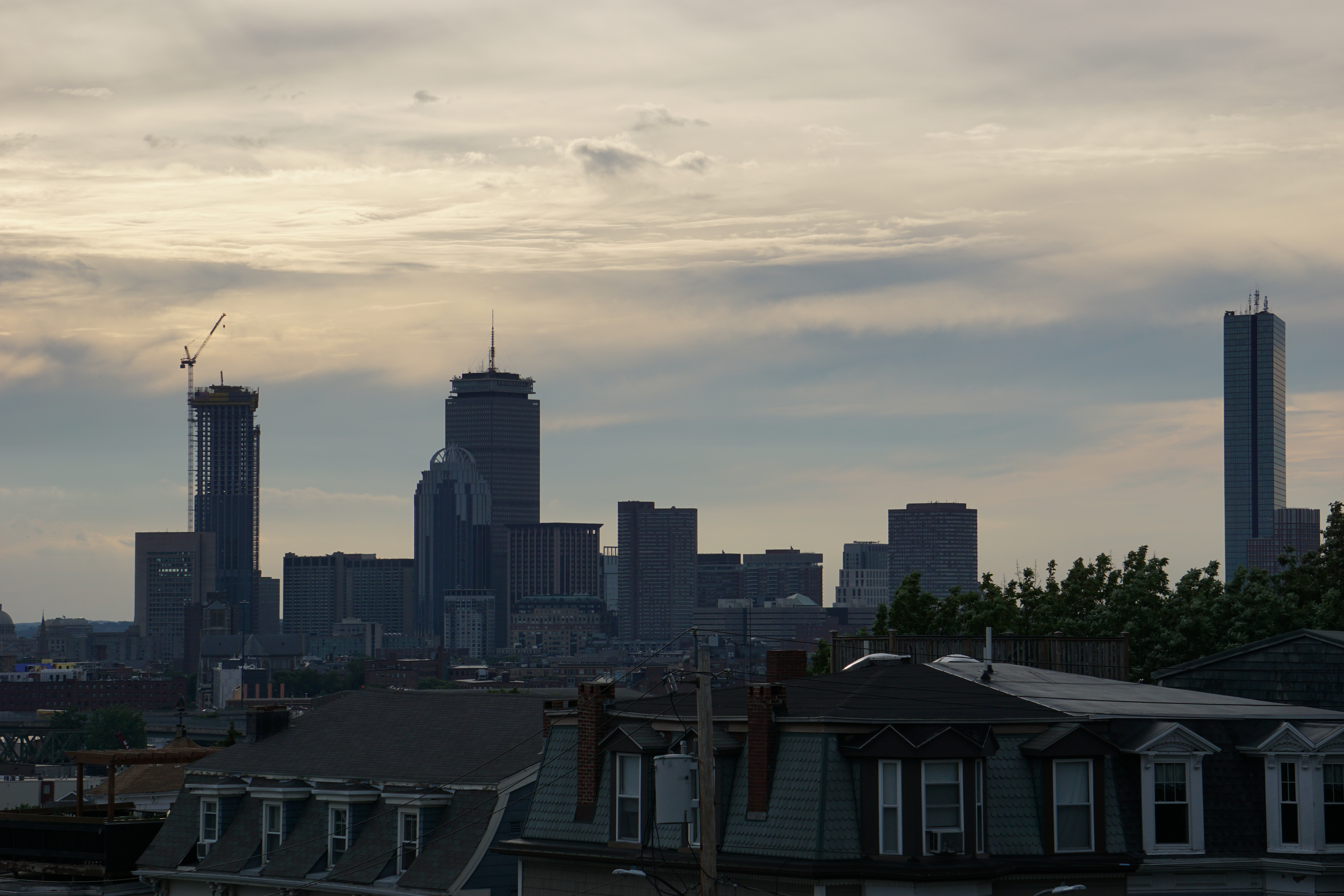 Boston Back Bay skyline as viewed from South Boston, June 24, 2018, showing (from left to right): One Dalton Street under construction, 111 Huntington Ave, The Prudential Center, and 200 Clarendon Street (formerly John Hancock Tower.